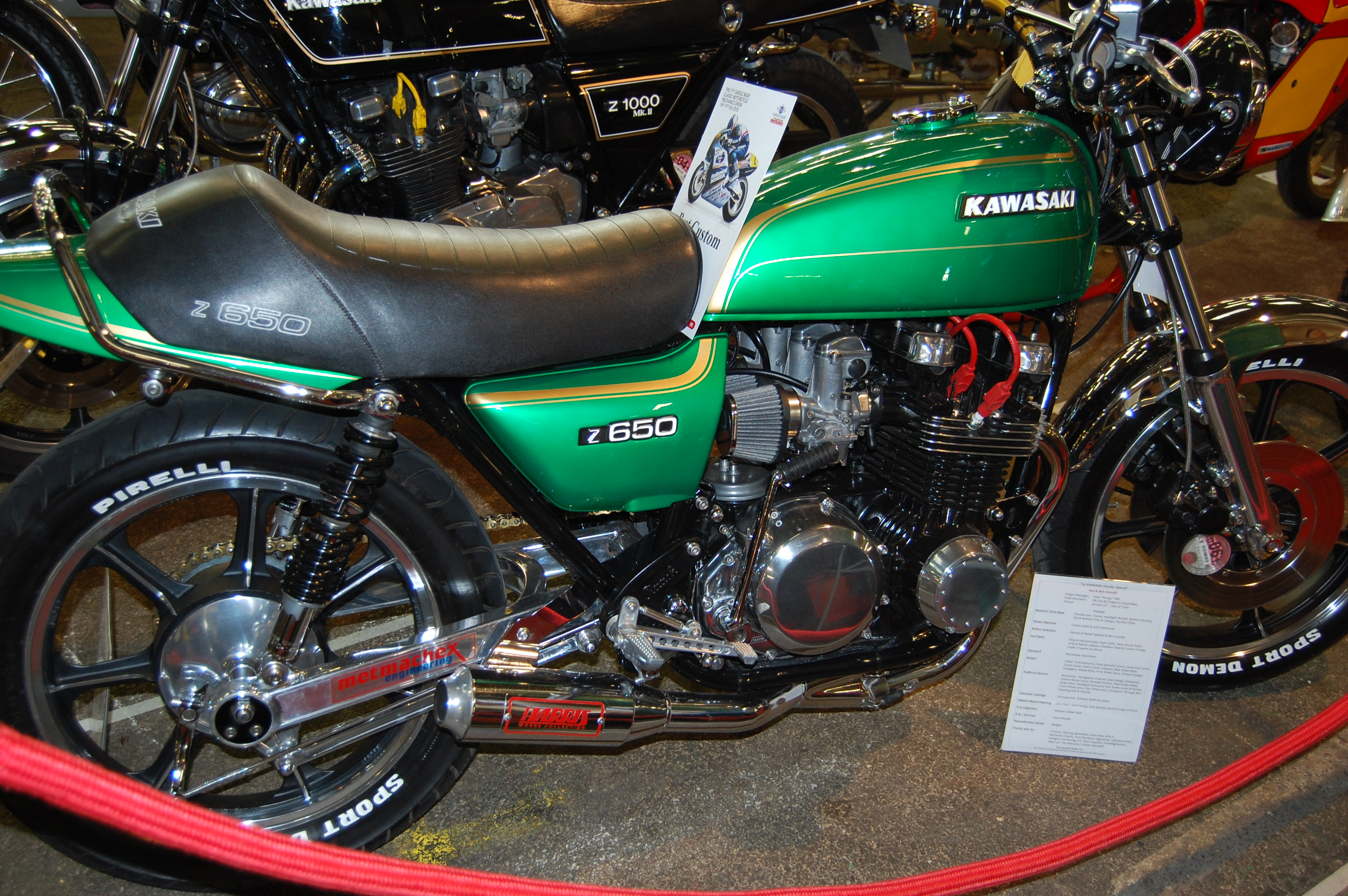 The Kawasaki Z650 was a motorcycle made by Kawasaki from 1976 through 1983. It had an engine displacement of 652 cc featuring a double overhead camshaft with two valves per cylinder. The gear box was a five speed. The Z650 was introduced to the trade in 1976 as a 1977 model and was very popular. 64 bhp (48 kW) was claimed with a dry weight of only 465 lb (211 kg), making a top speed of nearly 120 mph (190 km/h) possible. But more importantly, this new model handled like no other Kawasaki. For once all the available power could be used in relative safety. The Z650 was considered the 'Son of Z1' having been designed by the Grand Master himself, Ben 'Mr Z1' Inamura. The Z650 had the agility of a 500 with the performance of a 750, and was considered by many to be the best Kawasaki so far.